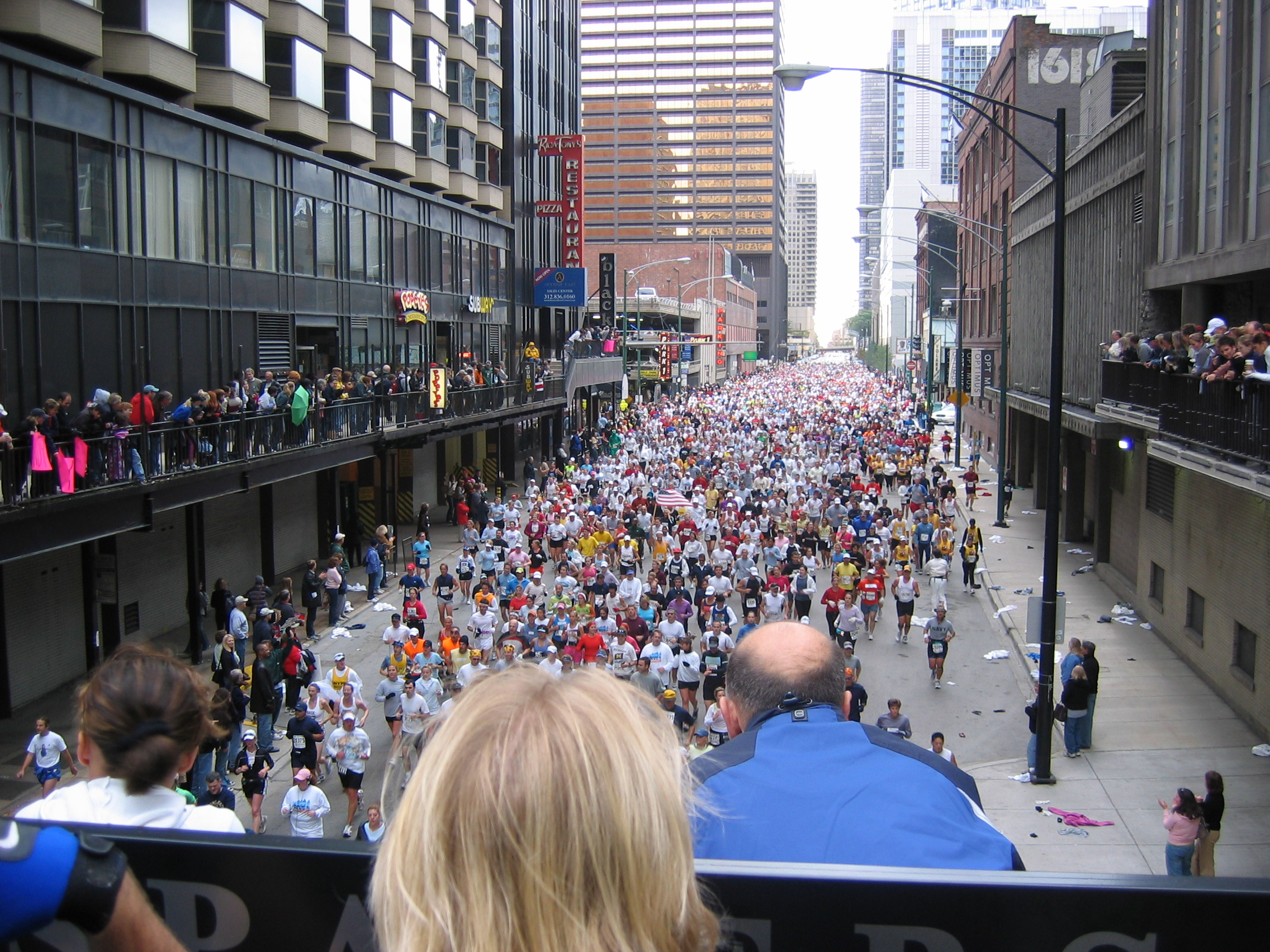 I just happened to be crossing the street when the crowd barrelled down Grand St at the start of the race. What a roar!